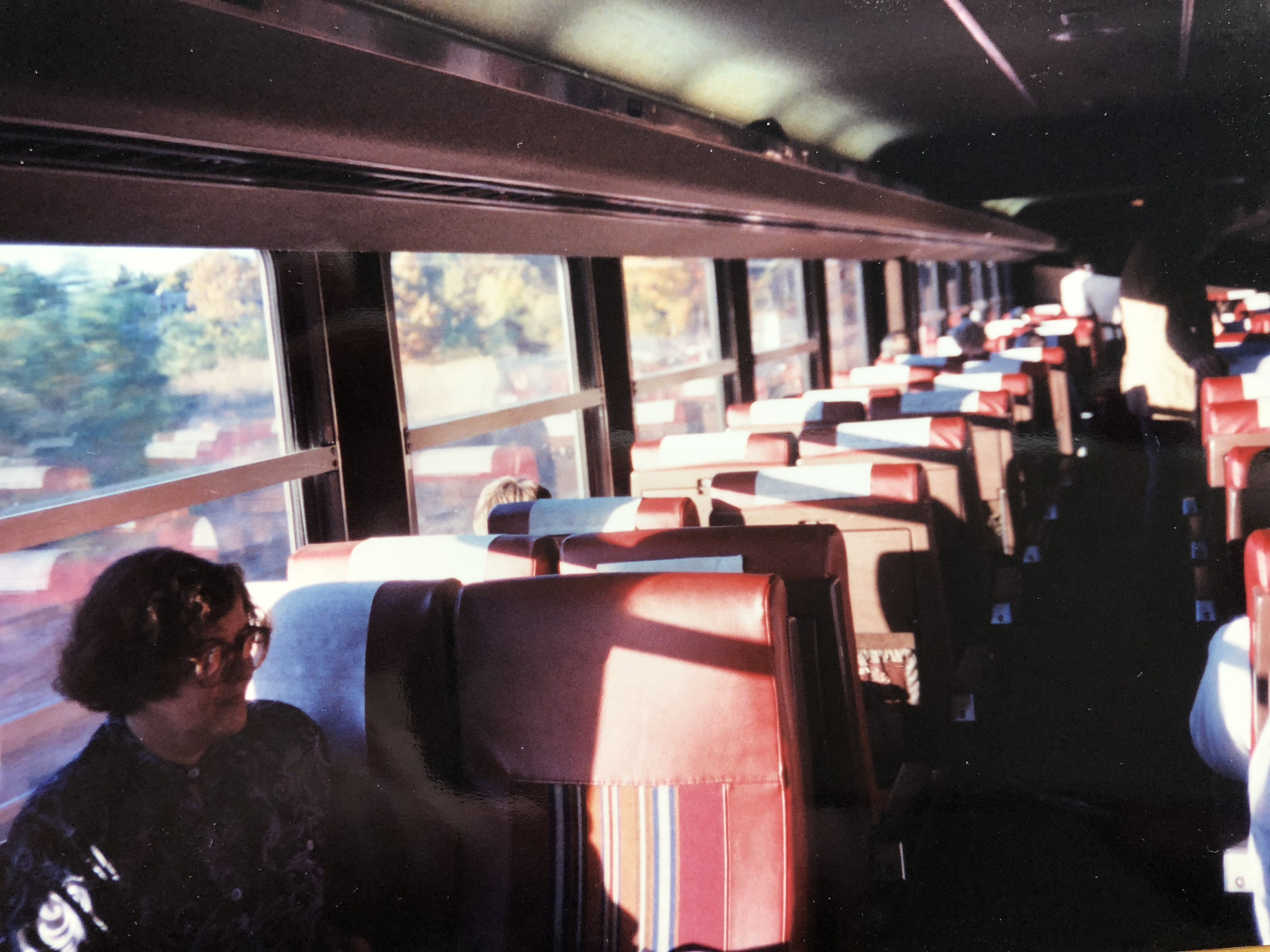 Interior of Turboliner RTL 150 on a demonstration run from South Station, Boston